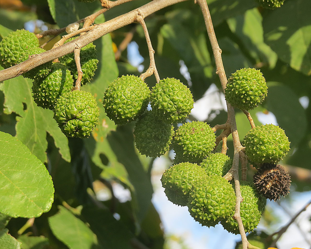 Widespread and often planted in the tropics with names such as Guacima here in Mexico. Prized for its wood and also used as fodder and in Folk Medicine.